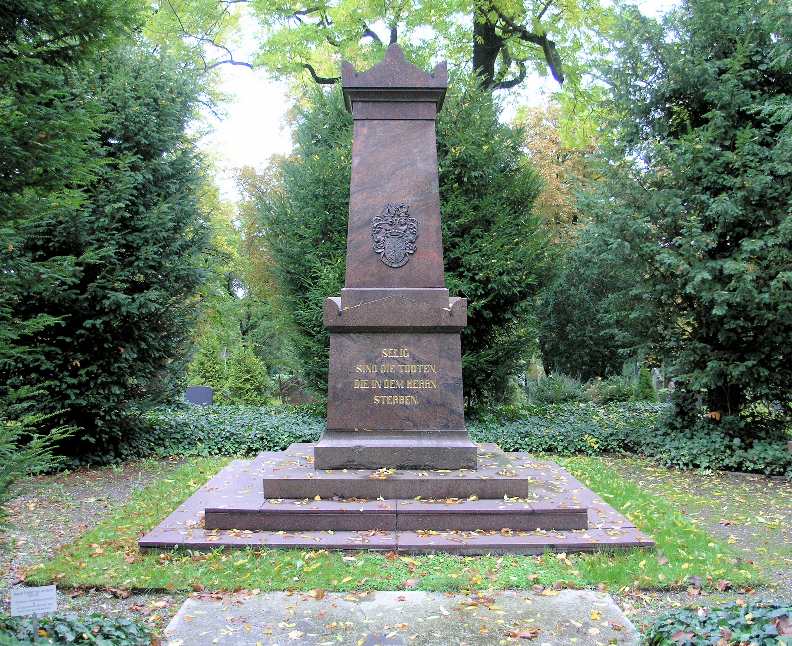 "Ehrengrab" (grave of honor), August von der Heydt, Großgörschenstraße 12, Berlin-Schöneberg, Germany